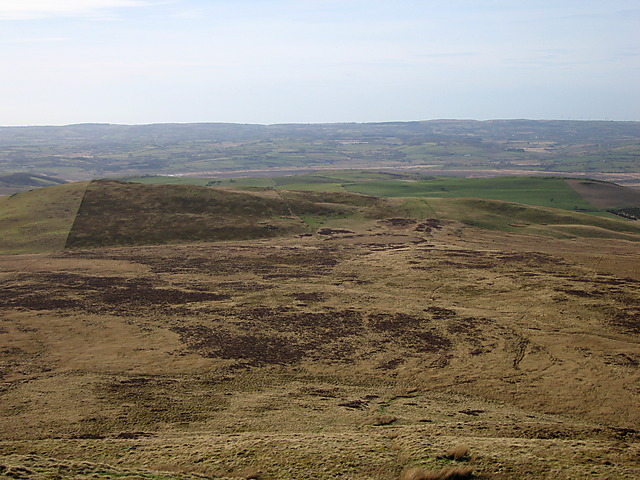 Gwys yr Ychen Bannog. Gwys yr Ychen Bannog is a 2km long linear ditch thought to be a pre-historic boundary demarcation (Coflein[1]: ). It radiates northwestward from Garn Gron's west top 1214522 across bog (where it isn't visible on the ground) towards and across y Bryn, the minor hill on the left in the picture. It can be seen as a linear, slightly lighter brown line crossing y Bryn just to the left of the centre of the picture. With a little imagination, it can be traced back towards the camera in the dark brown part of the bog ahead. Not much has changed since pre-historic times: the modern day political boundary (between Ystrad Fflur and Tregaron Communities) runs parallel 200m to the south along the fence that stands out on the left, crossing the top of y Bryn. A series of images showing different sections of Gwys yr Ychen Bannog, from east to west: . The name Gwys yr Ychen Bannog means 'furrow of the horned oxen'. There is a pair of Ychen Bannog in Welsh mythology which are thought to have been extraordinarily strong beasts. Tradition has it that they dragged a large rock used when building the church at Llanddewi Brefi some 8km southwest, engraving the furrow in the landscape in the process[2]. Clearly, the Ychen Bannog didn't have OS maps - Llanddewi Brefi lies on a bearing at right angles with the structure! [2] R Gwyndaf, MD Jones; Welsh Folk Tales, National Museum of Wales (1989); Google Books link